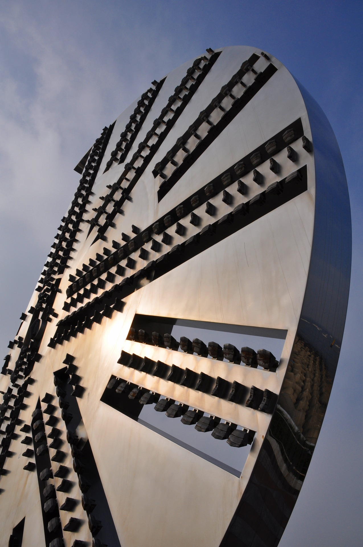 Big monument of cutter face